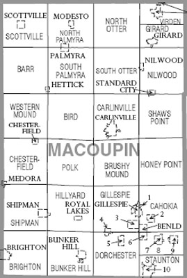 Township map of Macoupin County, Illinois